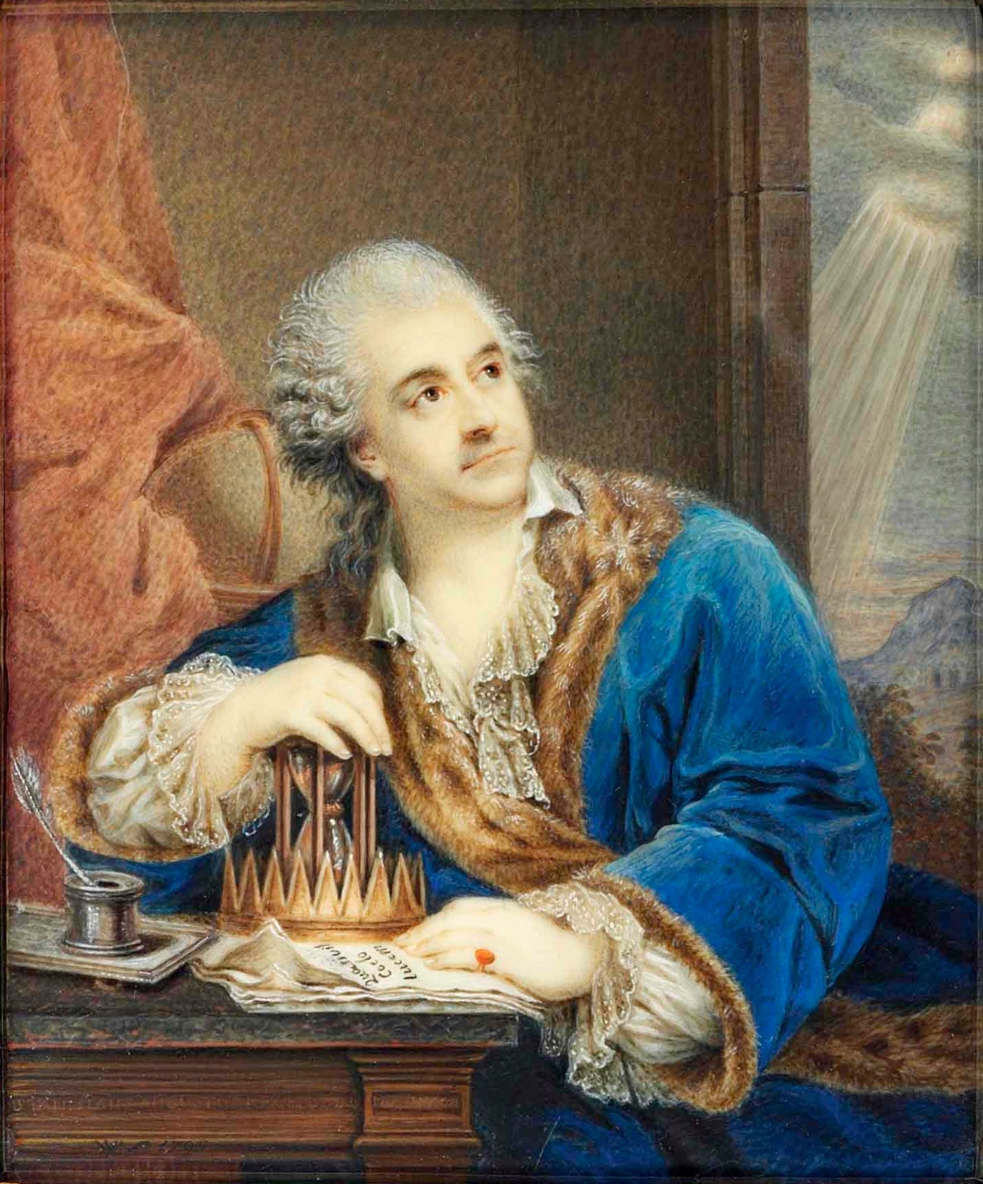 Portrait of Stanisław August Poniatowski with an hourglass. Stanislas II Augustus Poniatowski (1732-1798), King of Poland 1764-1795, in fur-bordered blue robe, frilled shirt, seated at a desk, his right hand on an hour glass next to a crown, his left on a document inscribed 'Qua sivit Coelo /Lucem' on the desk engraved 'Stanislaus Augustus Rex Po.. M. Dux Lith. MDCCLXXXXIIII', globe, red curtain and sky background